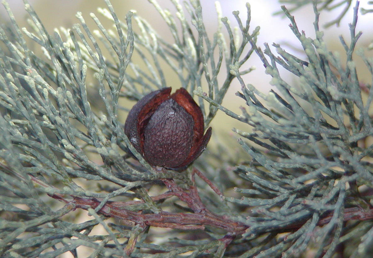 Callitris columellaris (syn. C. glaucophylla) foliage and mature cone, southern Queensland.